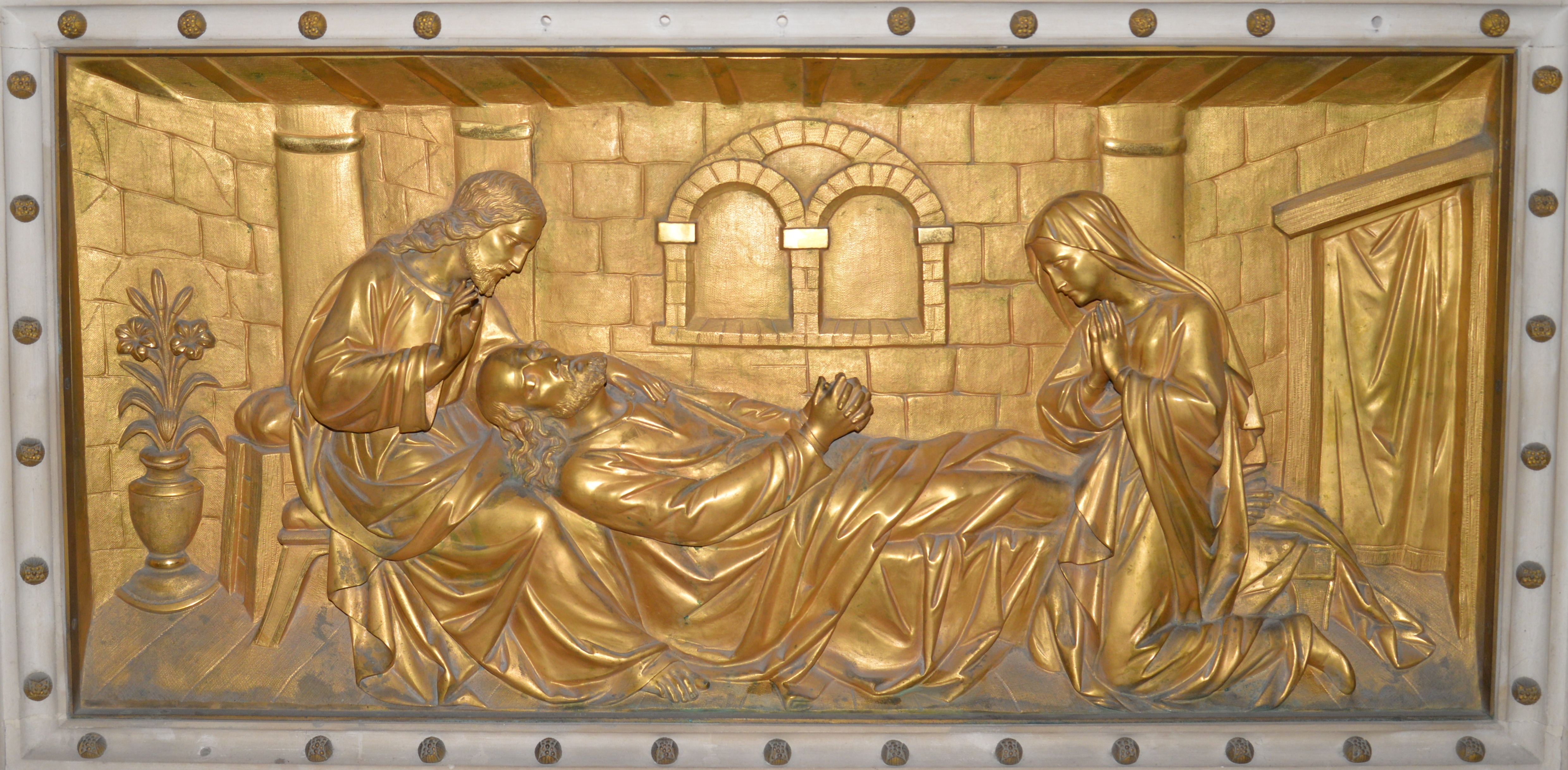 Saint Joseph Cathedral in Sofia